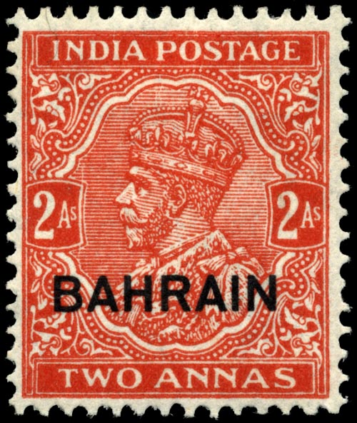 Bahrain 2-anna overprint stamp of 1935